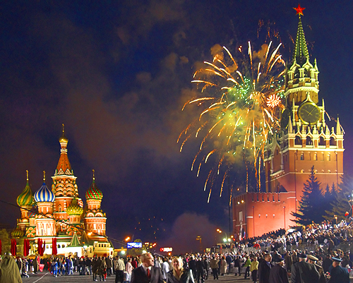 RED SQUARE, MOSCOW. Victory Day fireworks display.